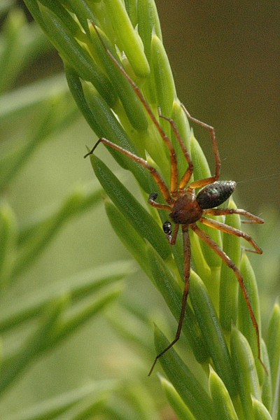 male Philodromus aureolus from Commanster, Belgian High Ardennes .